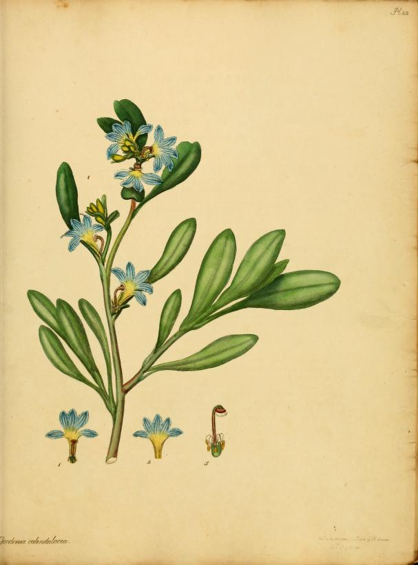 Scaevola calendulacea (as Goodenia calendulacea) from Andrews, Henry C. (1798) The Botanist's Repository for New, and Rare Plants 1: t. 22